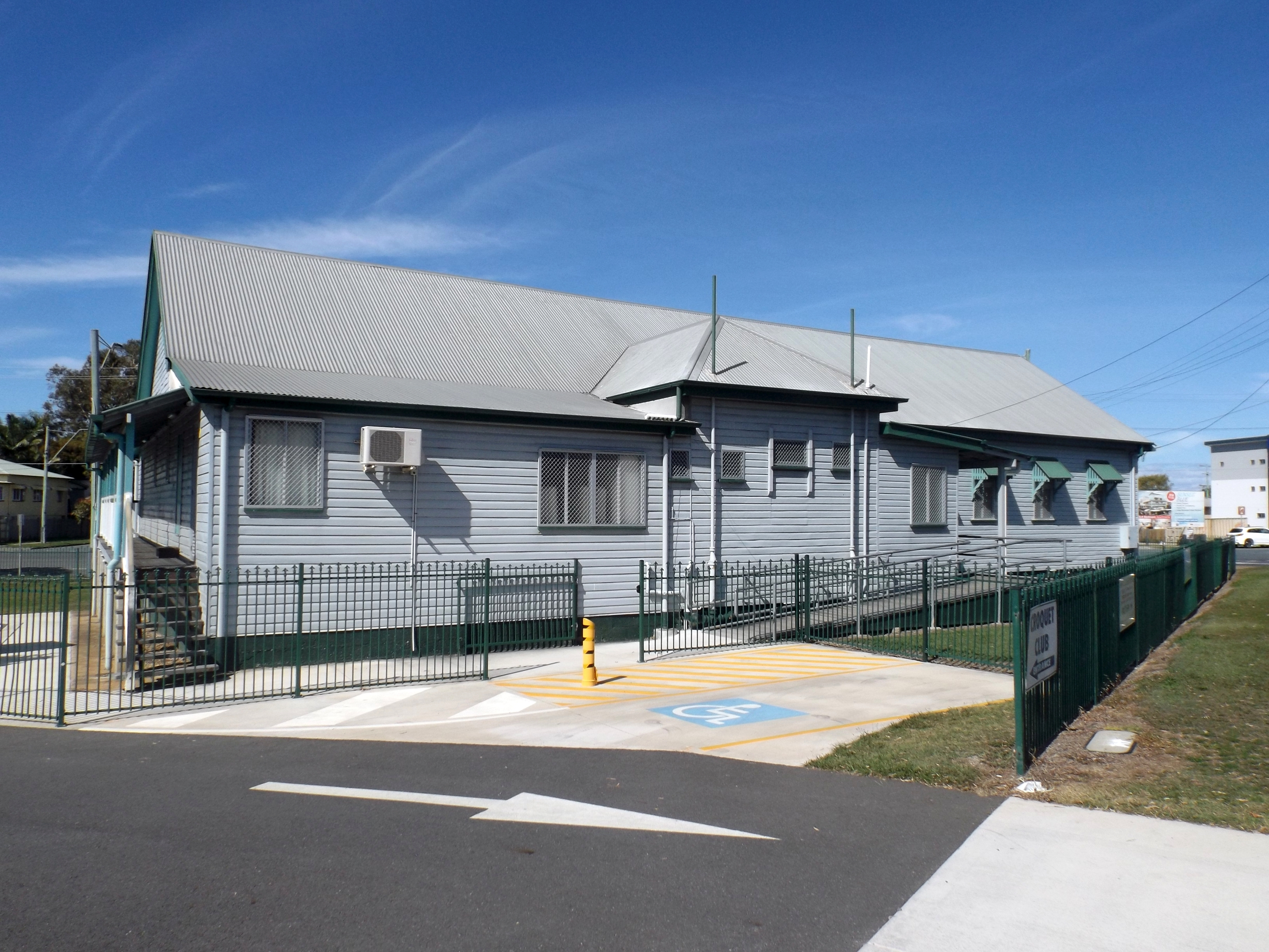 Photo of the side of Woody Point Memorial Hall, Woody Point, Moreton Bay Region, Queensland, Australia.